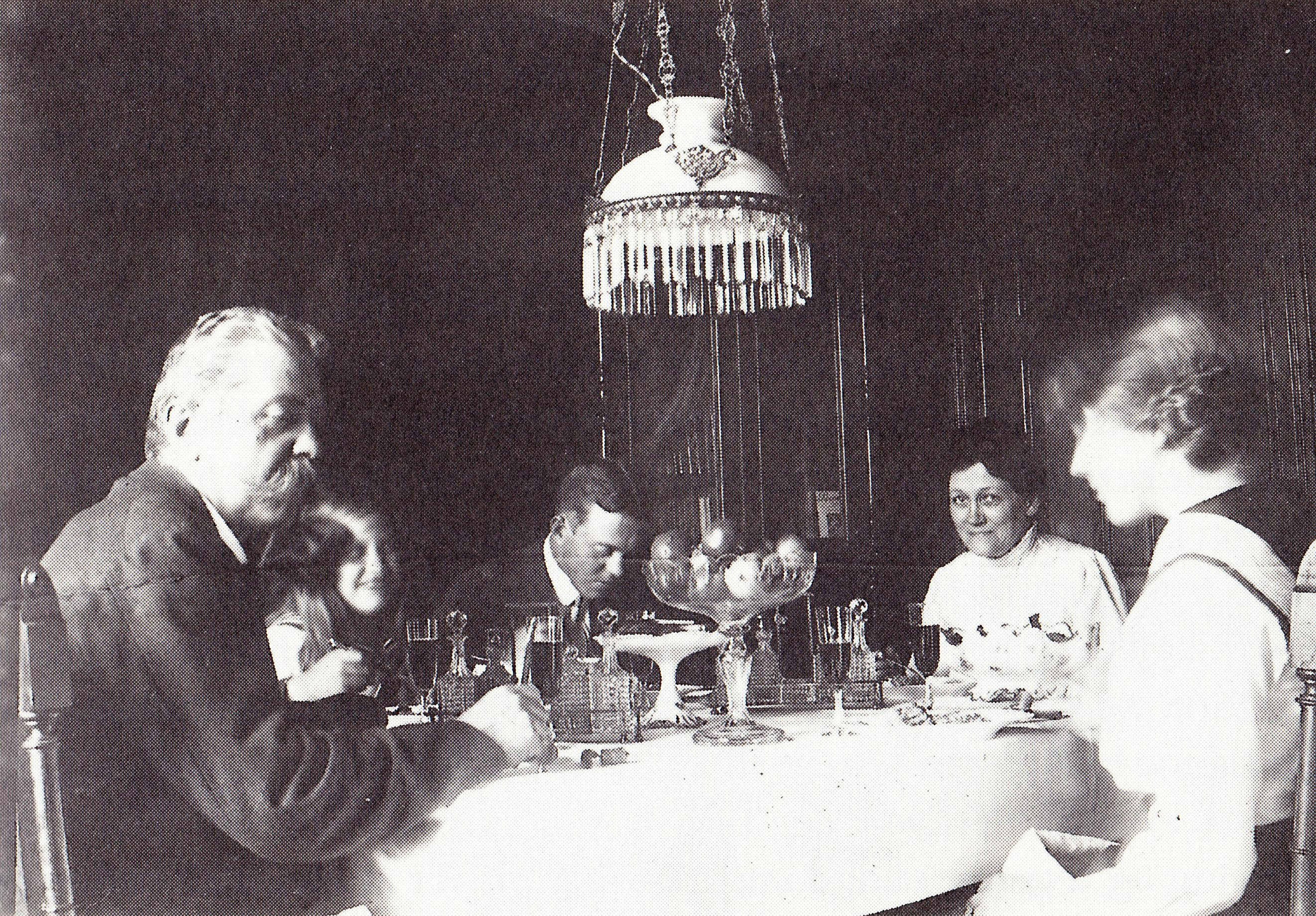 Trygve Gulbranssen's family.